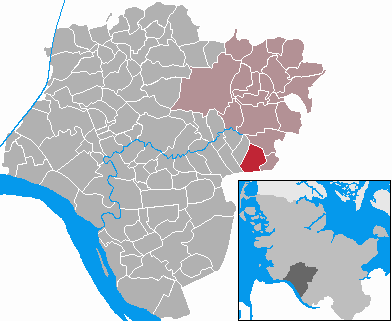 This map shows the area of the municipality Wulfsmoor in the Kreis (district) Steinburg, Schleswig-Holstein, Germany.